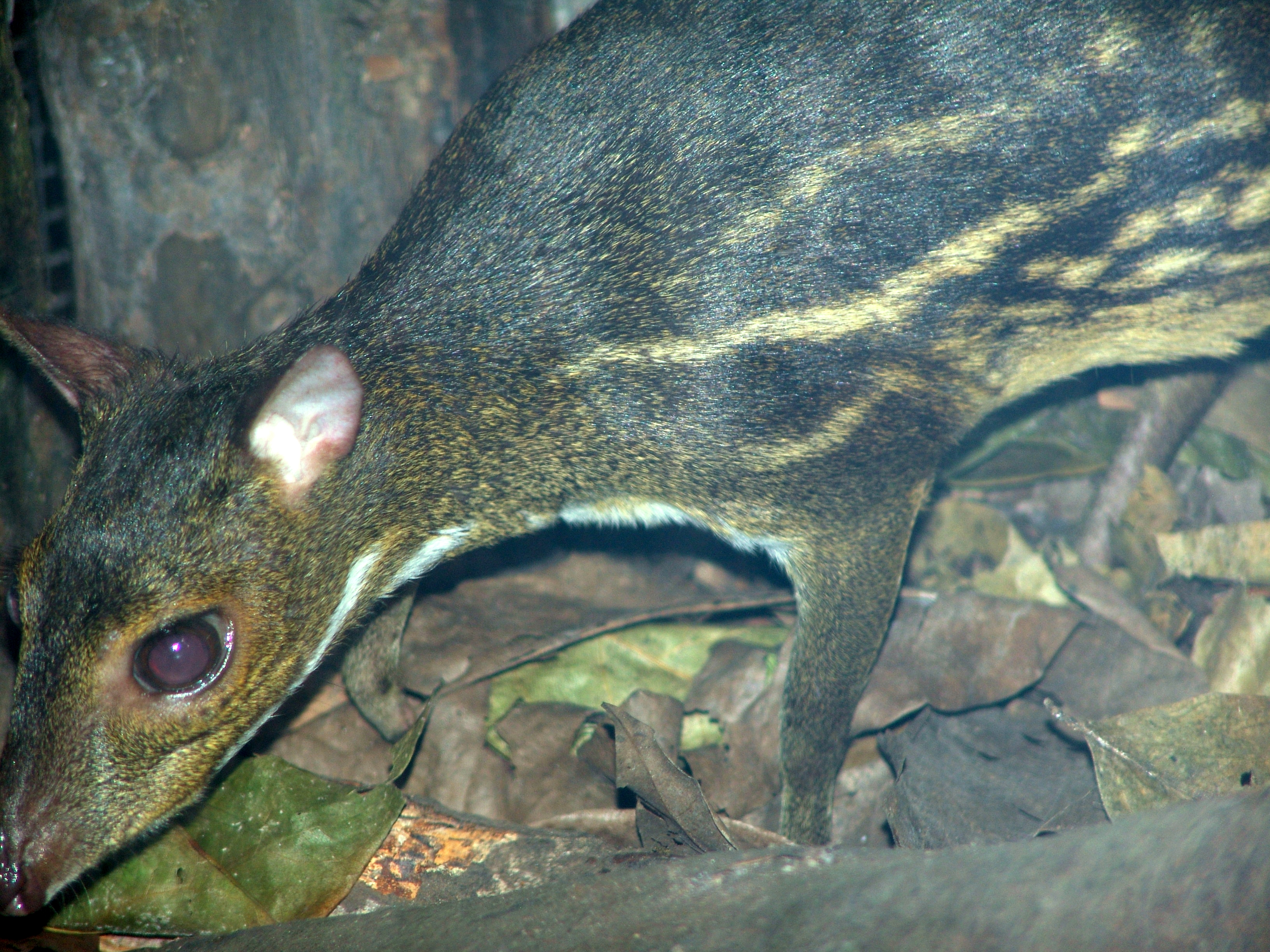 Indian Spotted Chevrotain (Moschiola indica) in Singapore Zoo